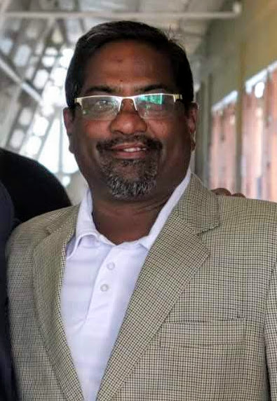 2019 Latest Snap